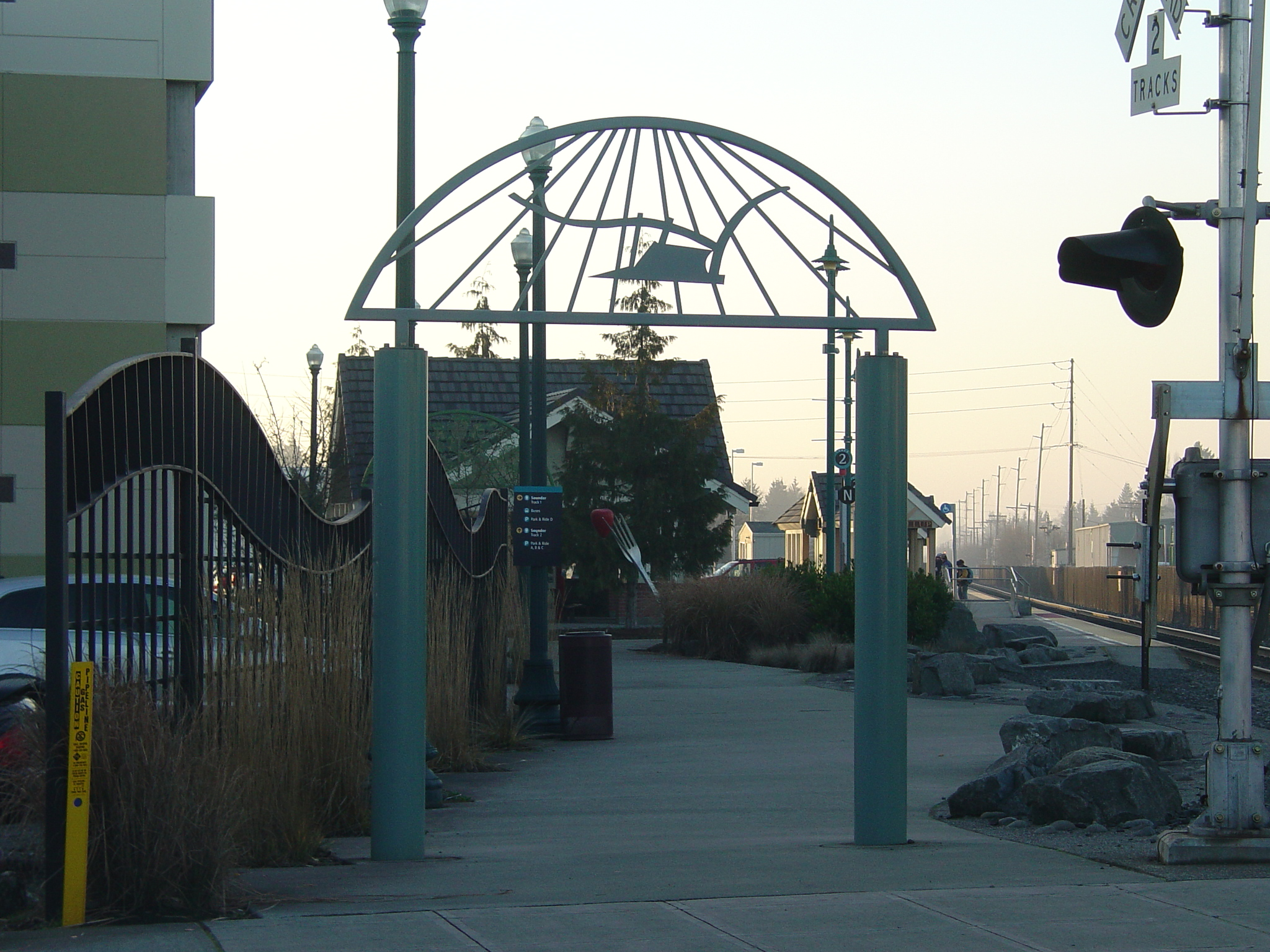 The train station in Puyallup, Washington.